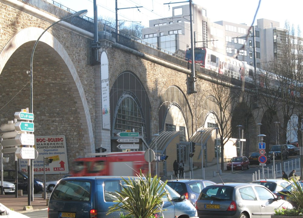 RER C in Issy-les-Moulineaux, in the inner suburbs of Paris, France. (Author: Metropolitan)